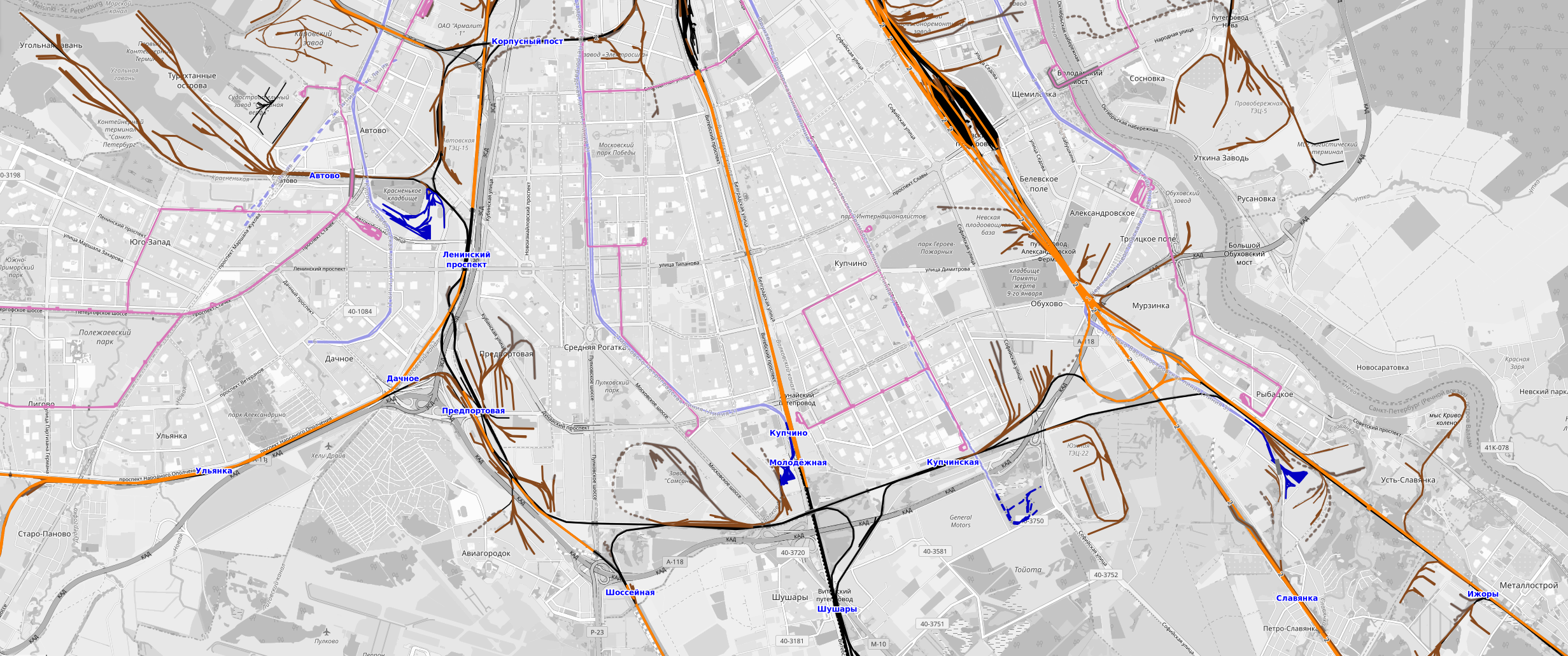 Yuzhnaya Portovaya Vetv This map may be incomplete, and may contain errors. Don't rely solely on it for navigation.